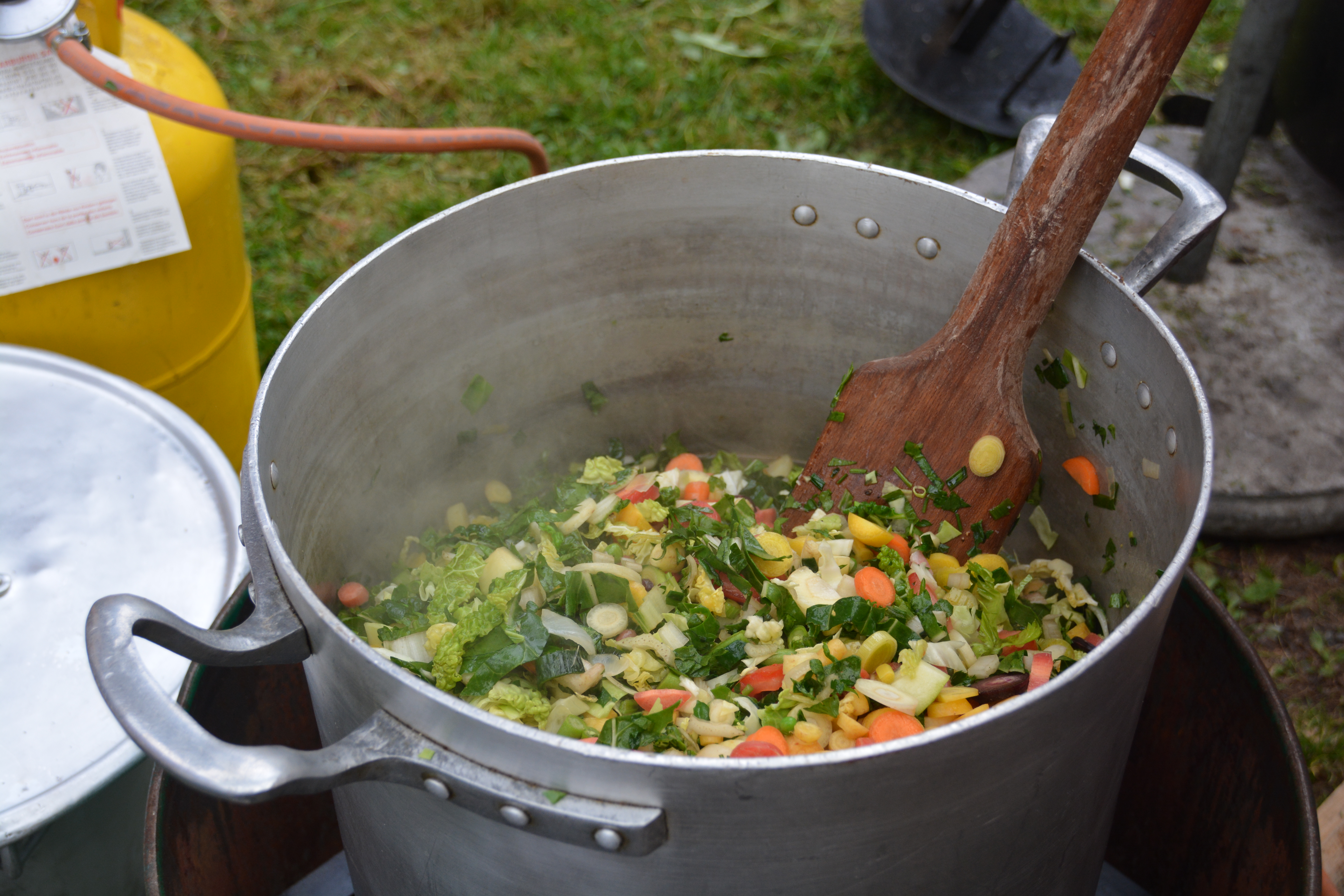 Matzufamm